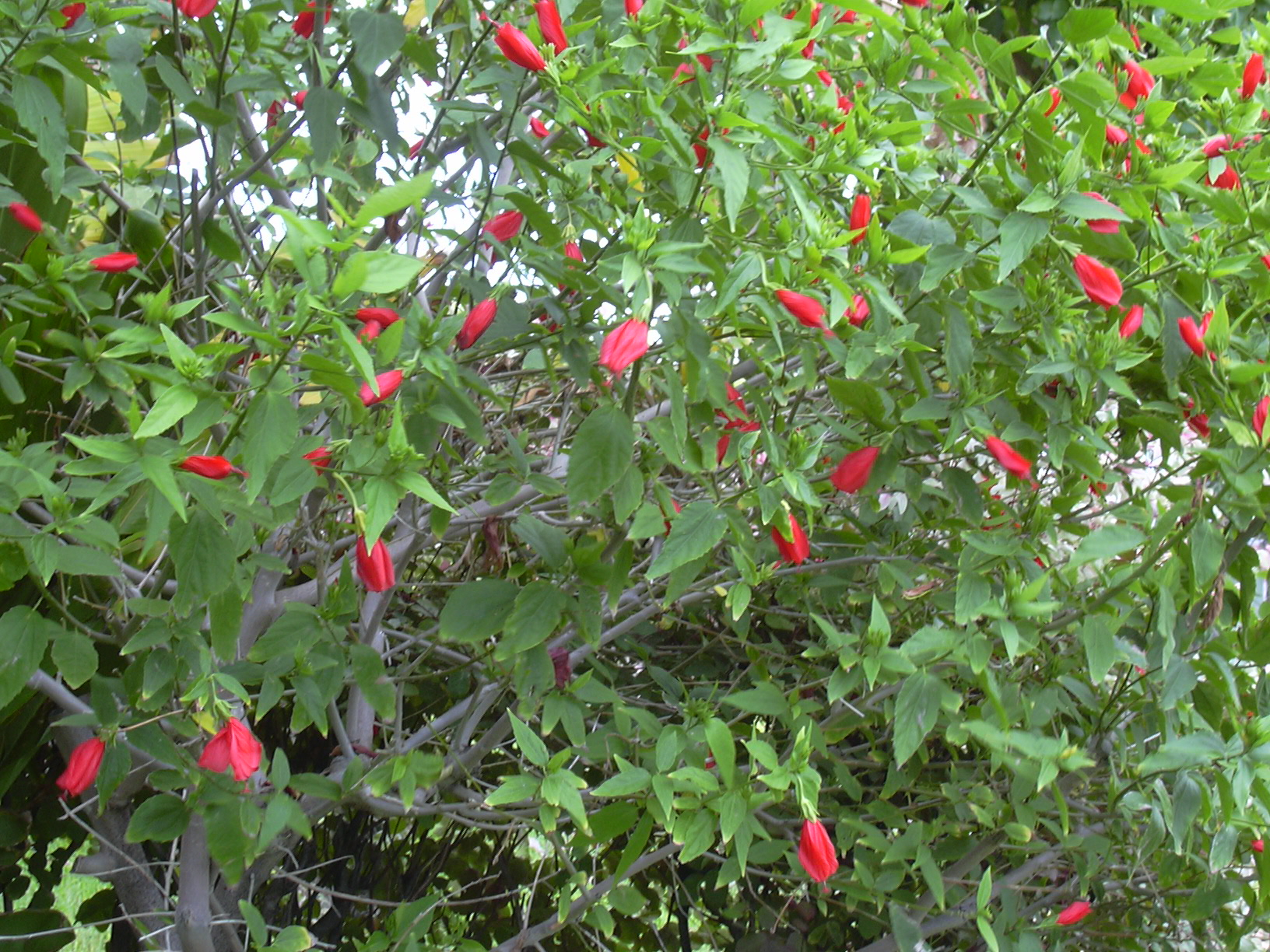 Malvaviscus penduliflorus (habit). Location: Maui, Kahului